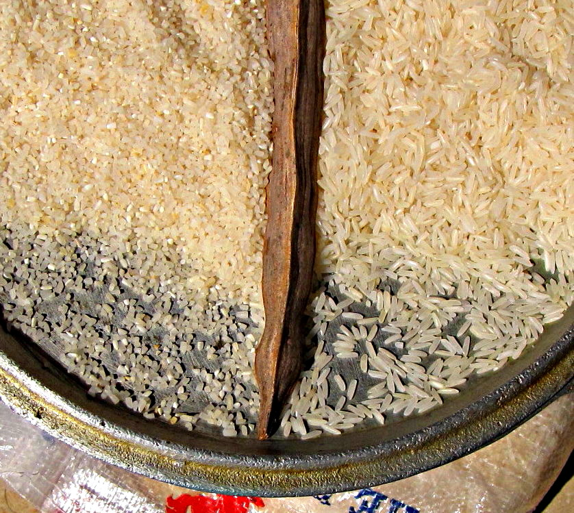 Popular broken grain rice often known as Mali rice, on the left, compared to a typical long grain rice on the right. Where decades ago, this may have indicated a cheaper quality of rice, today it is produced to high-quality standards, and is popular across West Africa as it resembles and can be served in the place of couscous. This is an image of food from Senegal